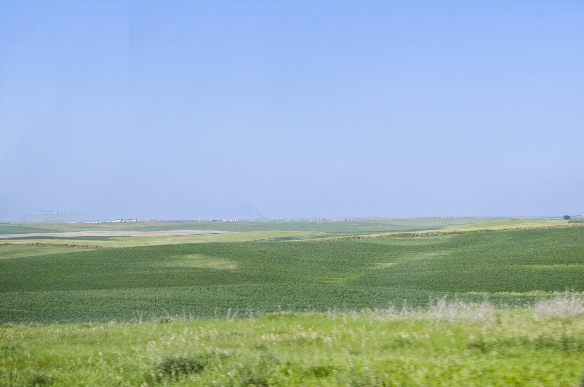 Fields of wheat and alfalfa hay in McKenzie County west of Watford City, North Dakota.